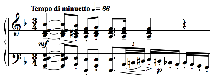 The first few measures of Preludes, Op. 23, No. 3. The set, composed by Sergei Rachmaninoff in 1901 was published before 1923, and thus is in the public domain.